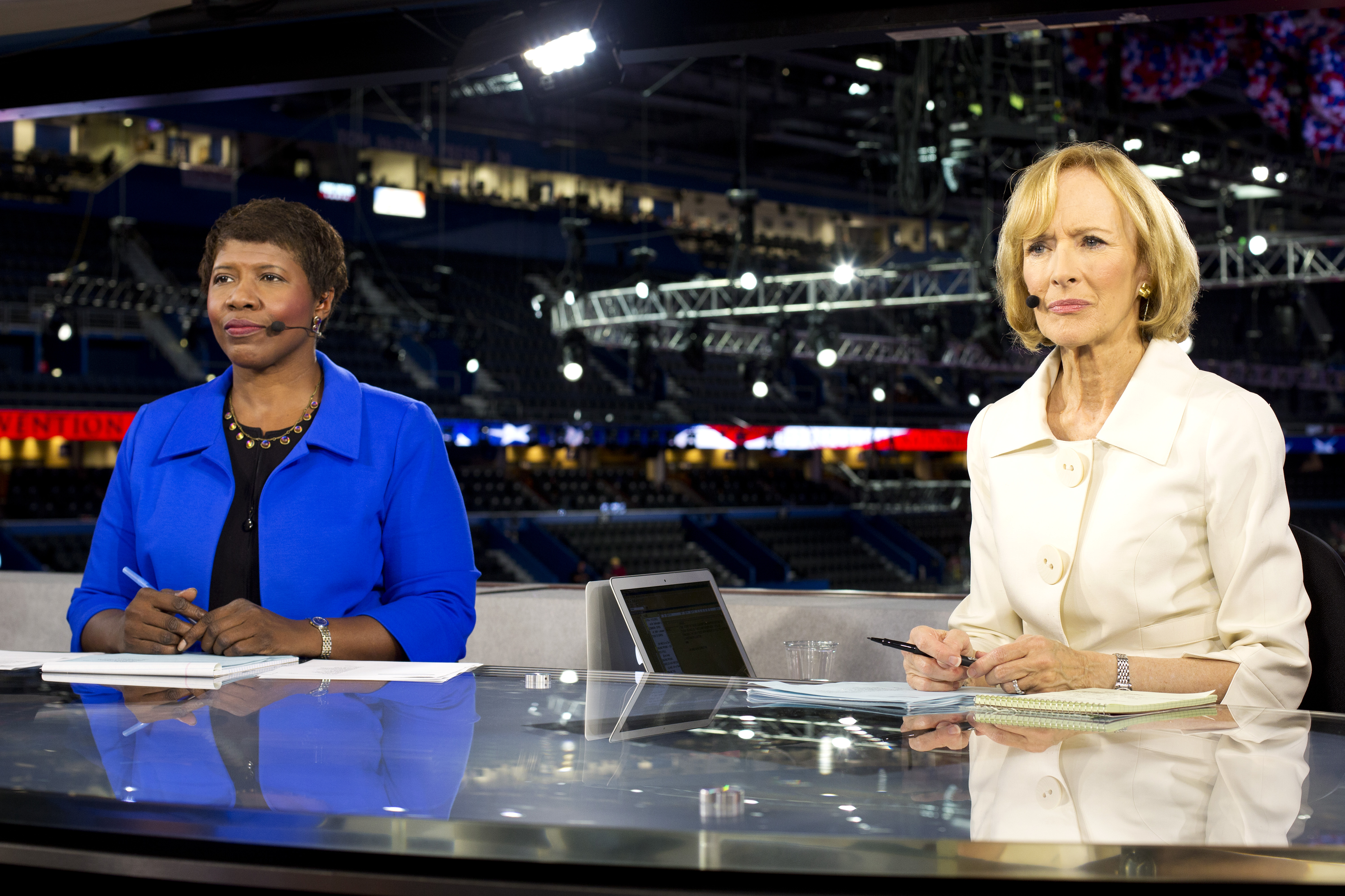 Behind the scenes of PBS NewsHour with Gwen Ifill and Judy Woodruff